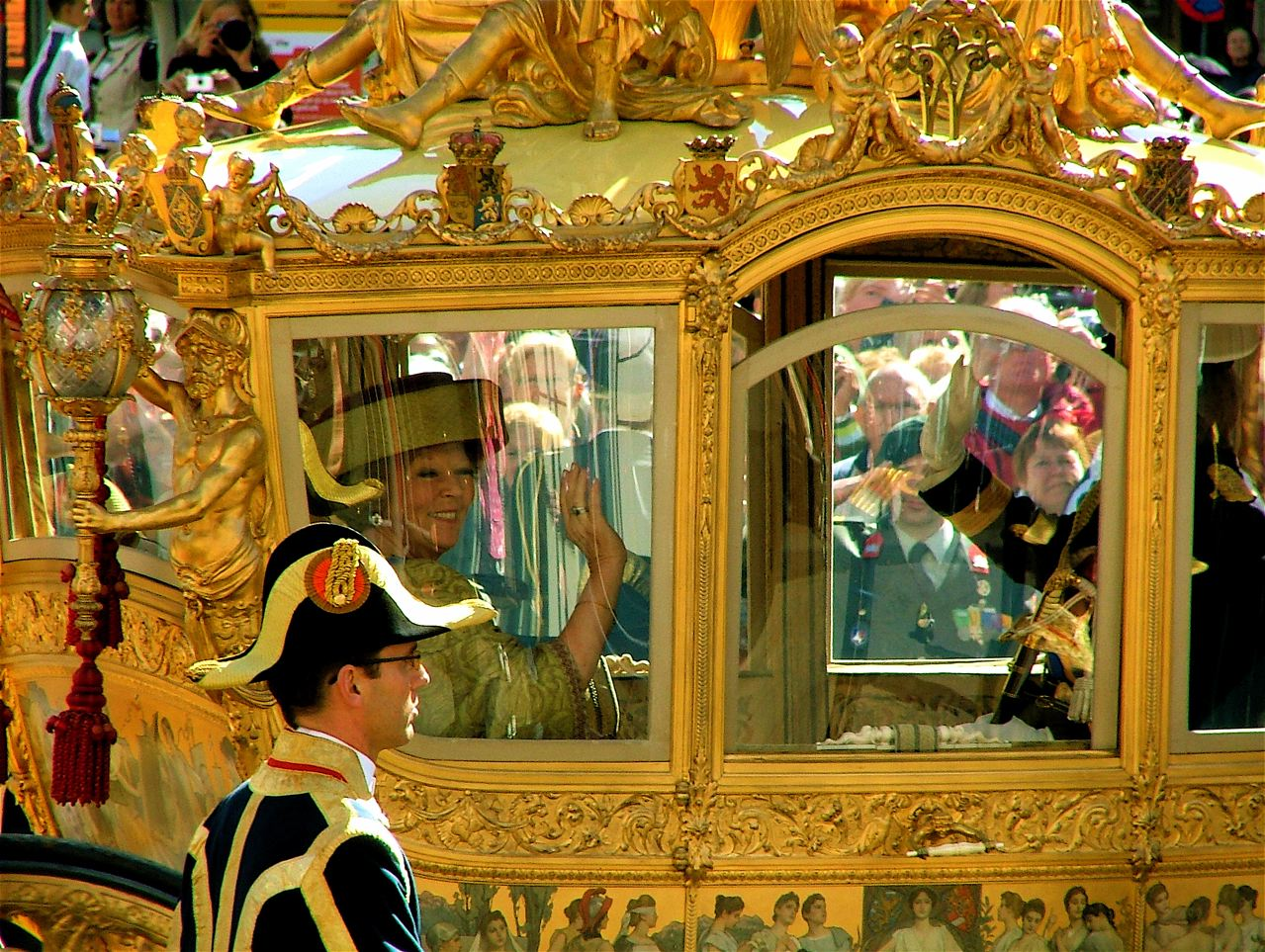 Beatrix of the Netherlands on Prinsjesdag